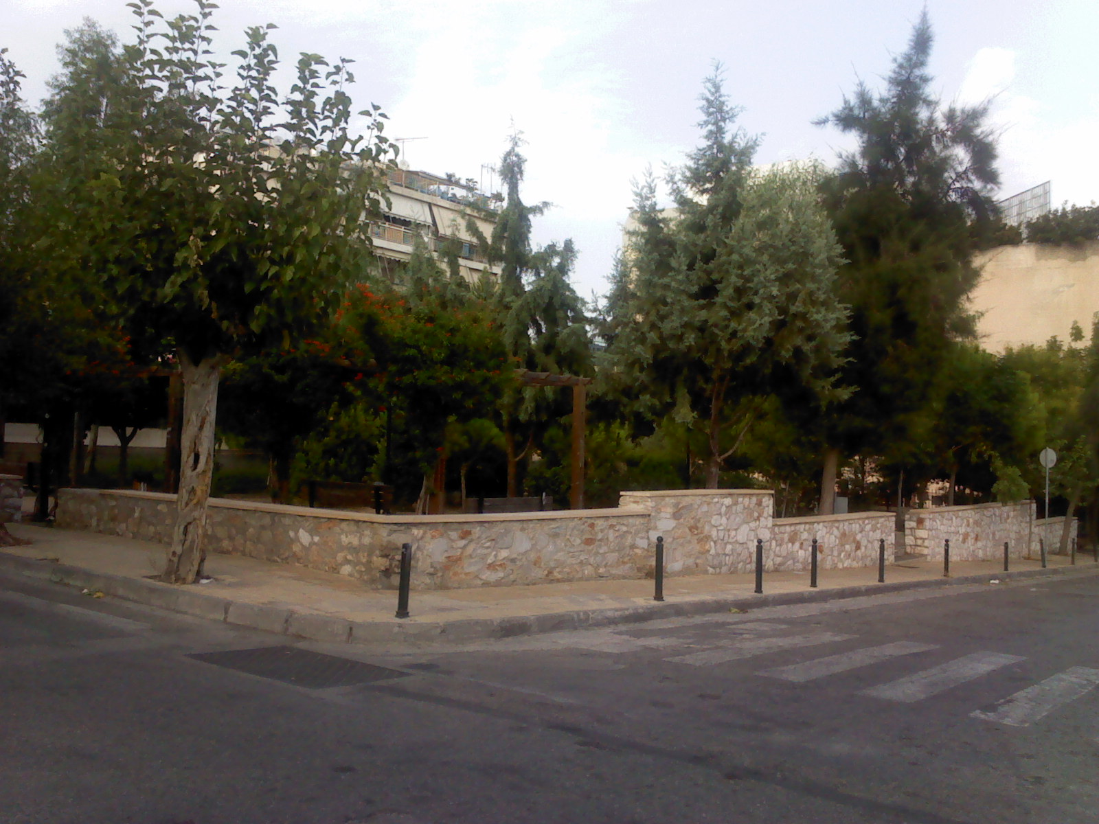 Square Bourla